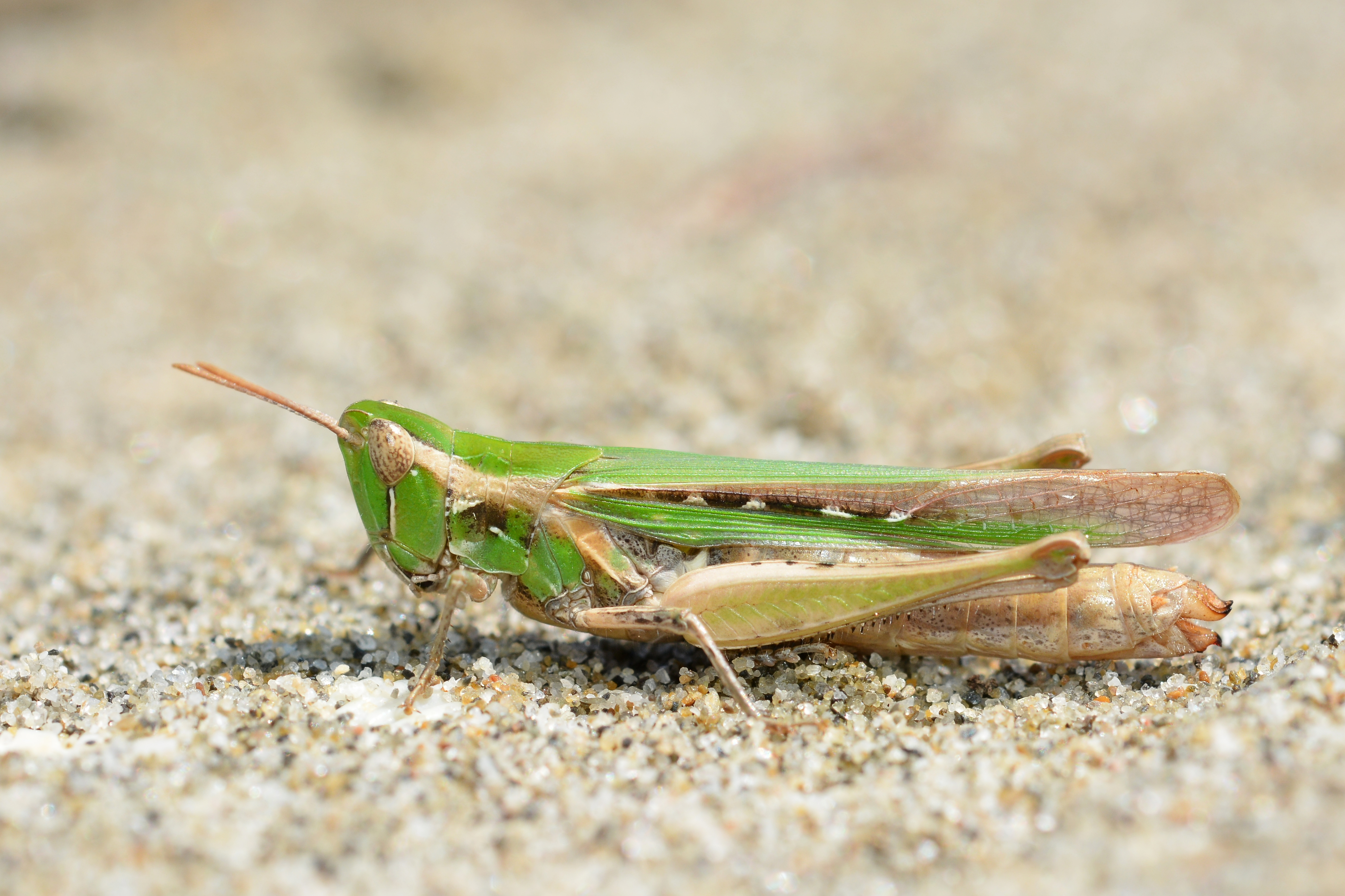 Calephorus compressicornis female